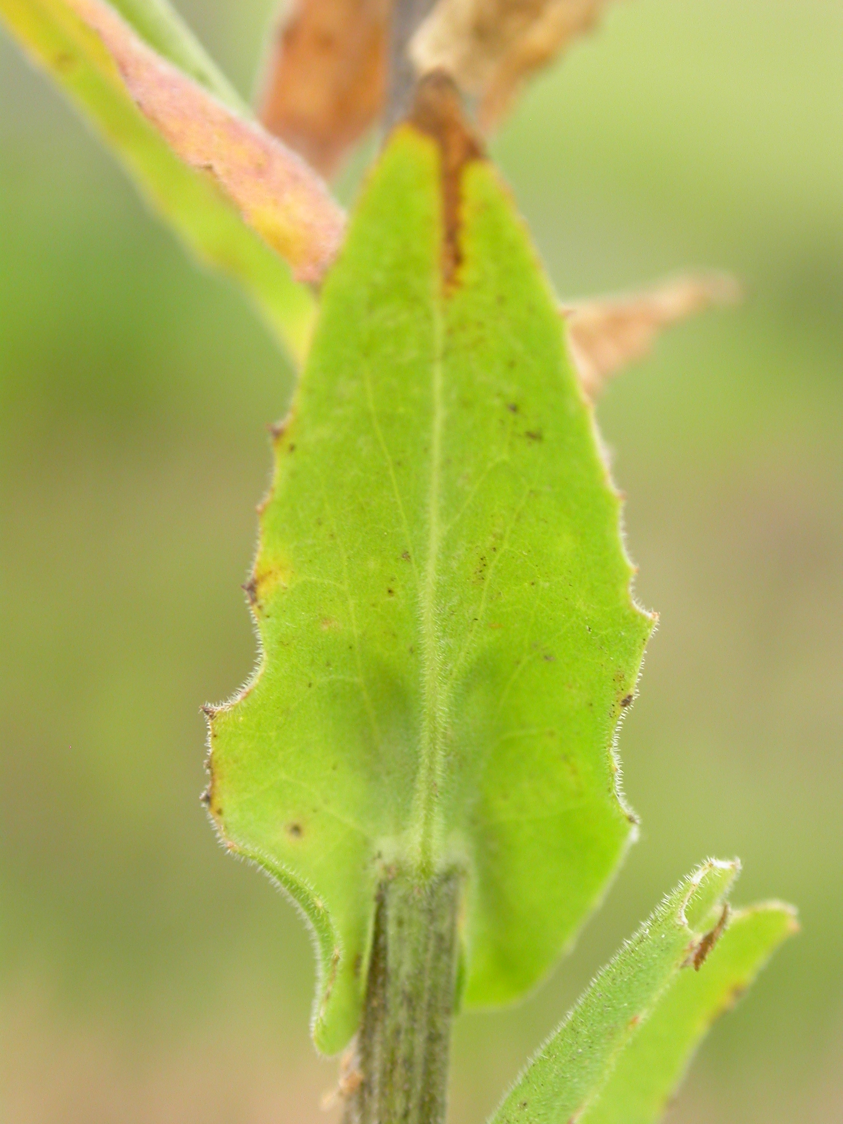 Pepperweeds have auriculate-clasping leaf bases.